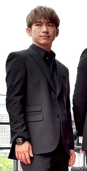 J Soul Brothers' Naoto @ SSFF Asia 2018 (cropped)